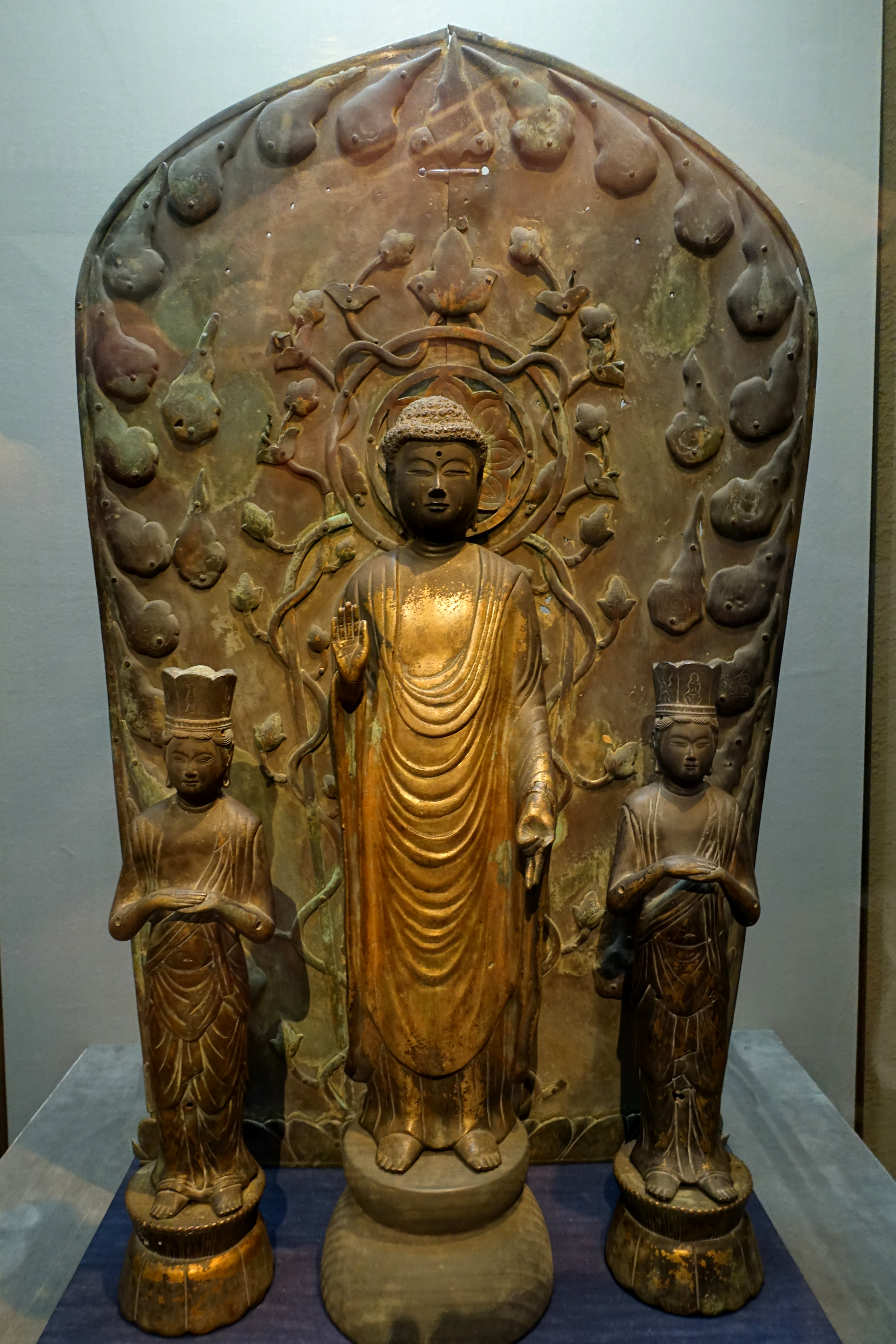 Exhibit in the Tokyo National Museum - Tokyo, Japan.